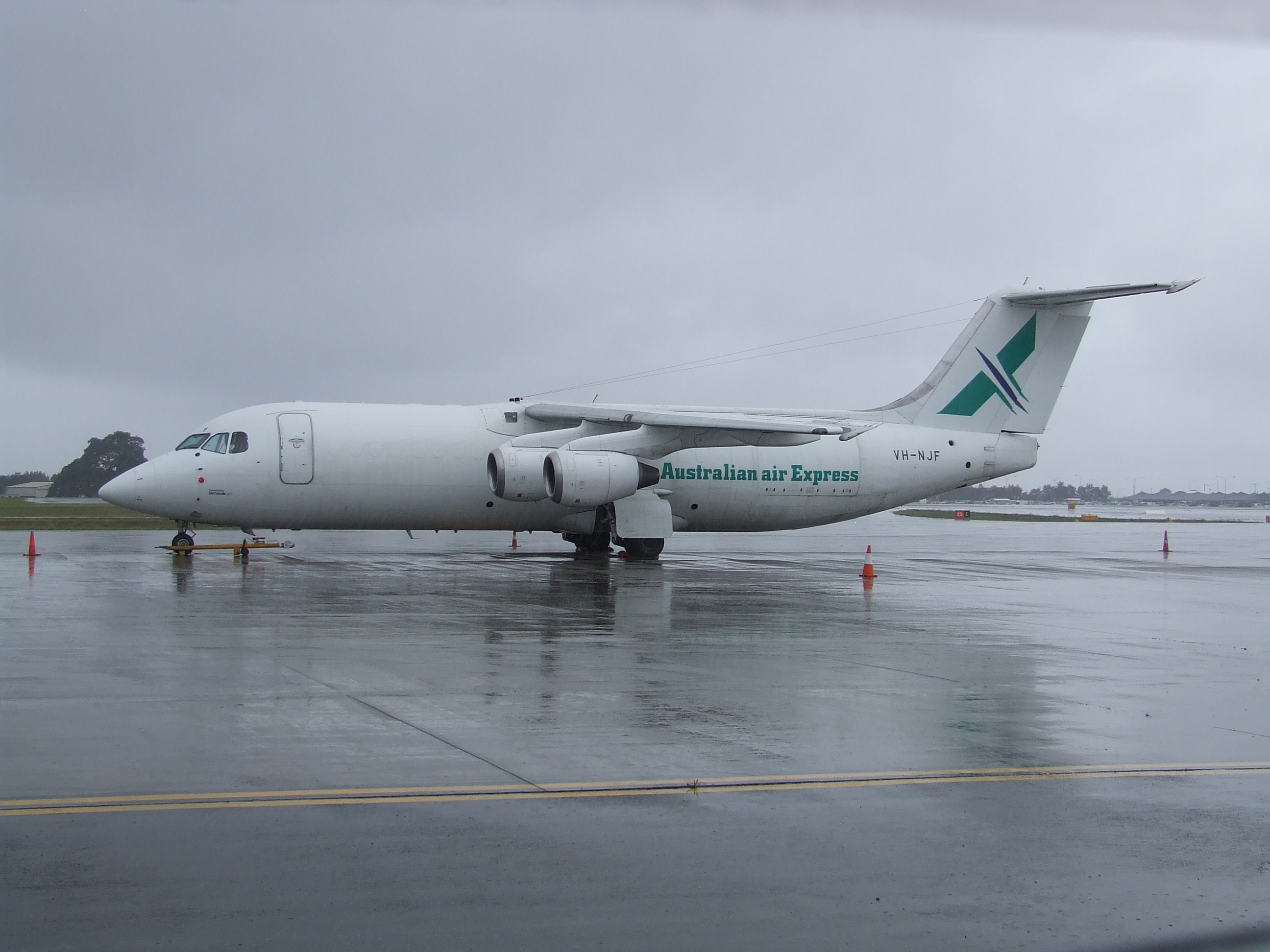 National Jet Systems British Aerospace BAe 146-300QT VH-NJF